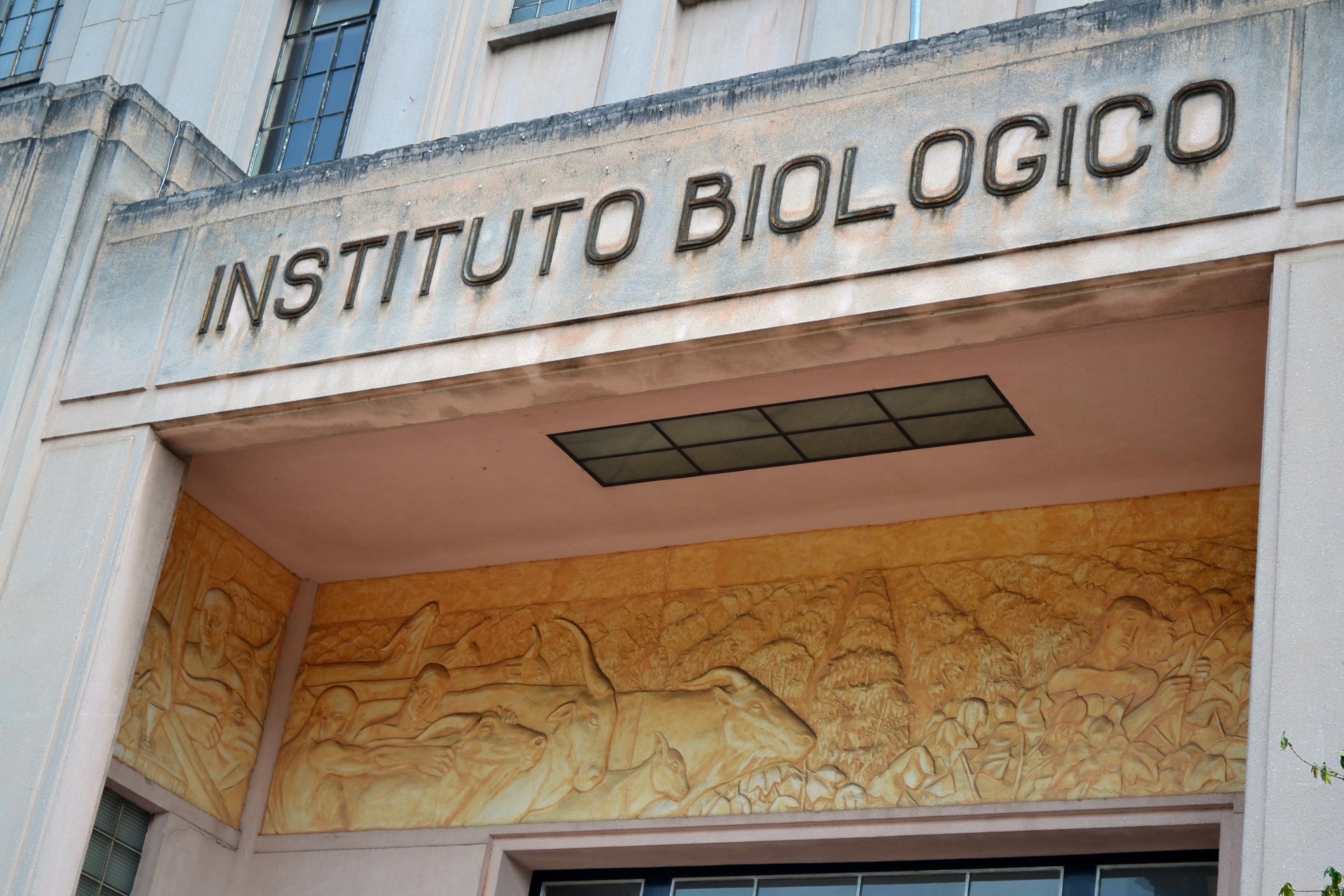 Entrada do instituto Biológico de São Paulo, em São Paulo (SP), Brasil.